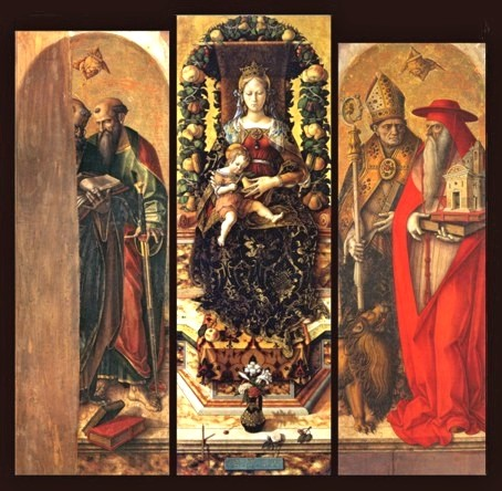 Carlo Crivelli, the central panels of the polyptych buit in 1488-90 for the Cathedral of Camerino (Italy), tempera and oil on wood